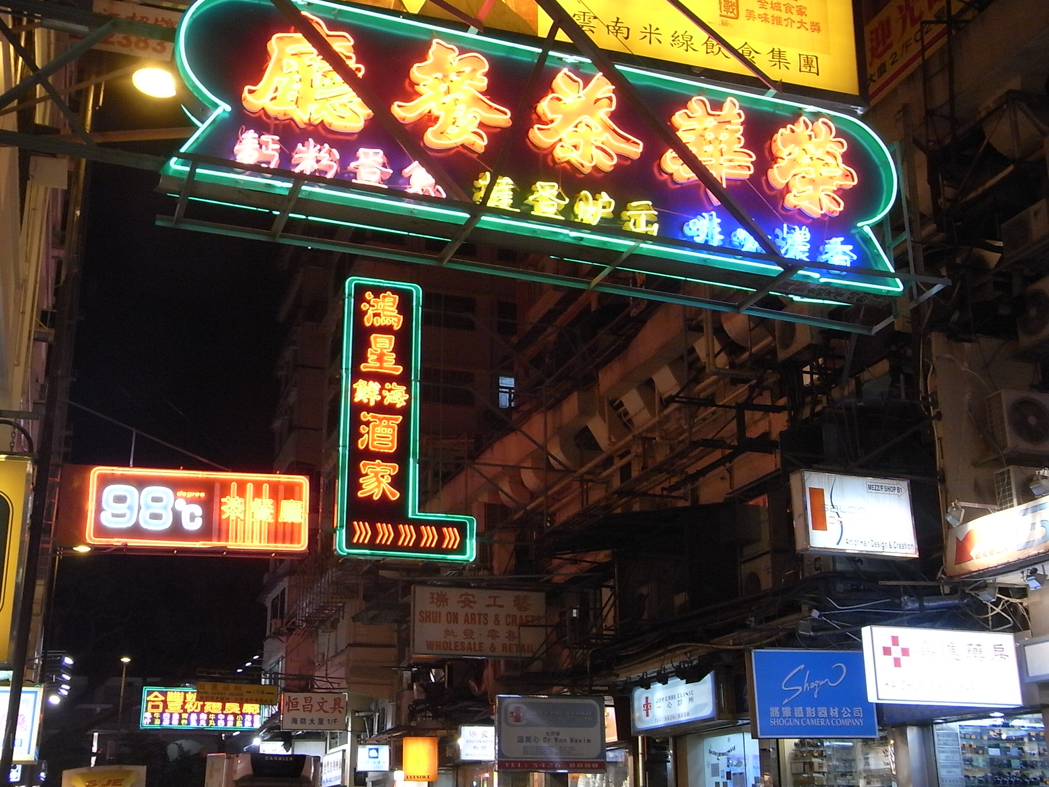 尖沙咀 樂道